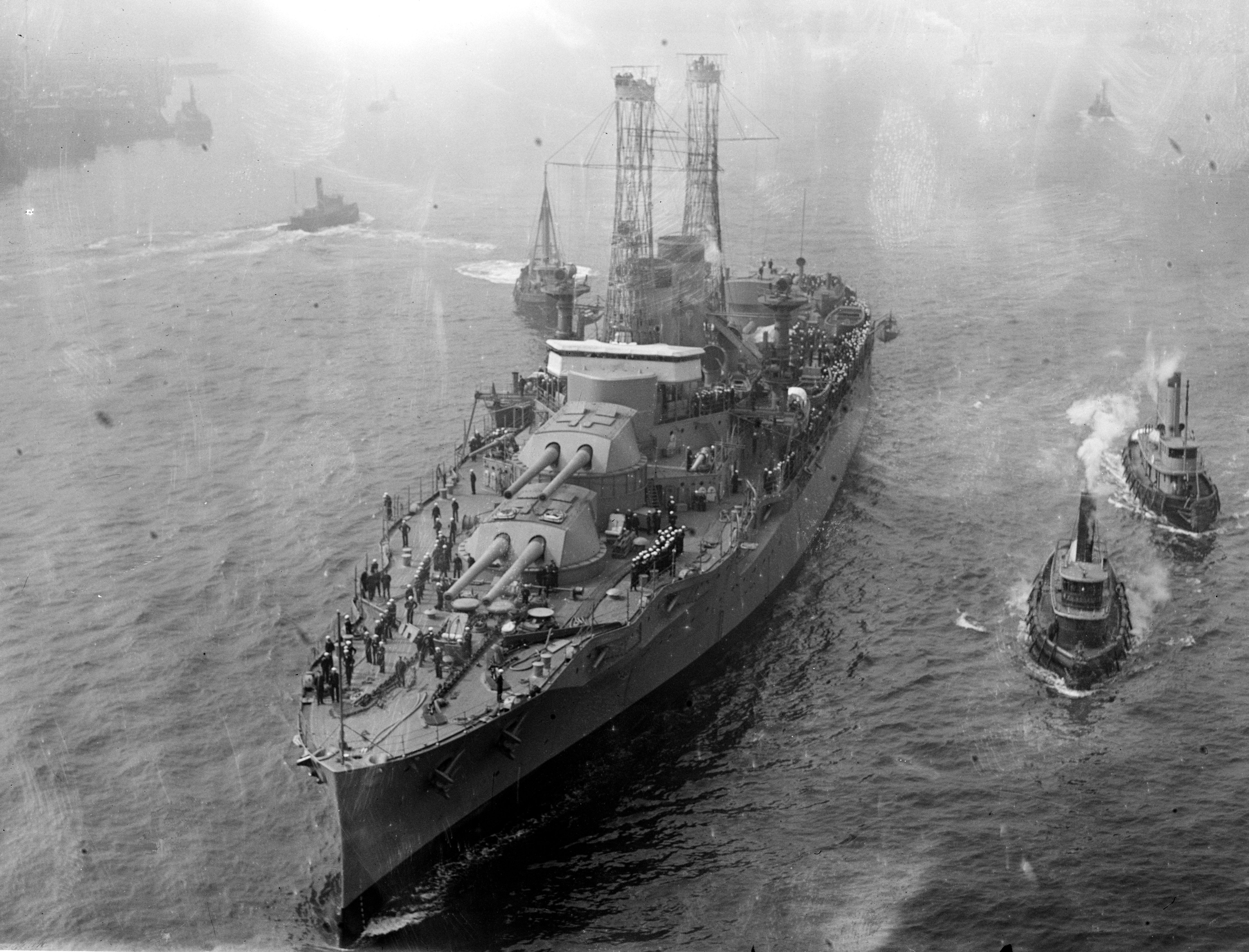 USS Texas (BB-35), battleship of the United States